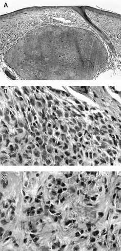 SKIN: NEUROTHEKEOMA, EPITHELIOID VARIANT This mid-dermal tumor is well circumscribed (A) and composed of clustered nests of round to ovoid cells with dense eosinophilic cytoplasm and variable nuclear pleomorphism (B). In several foci, these cells were also embedded in a fibrillar matrix (C).